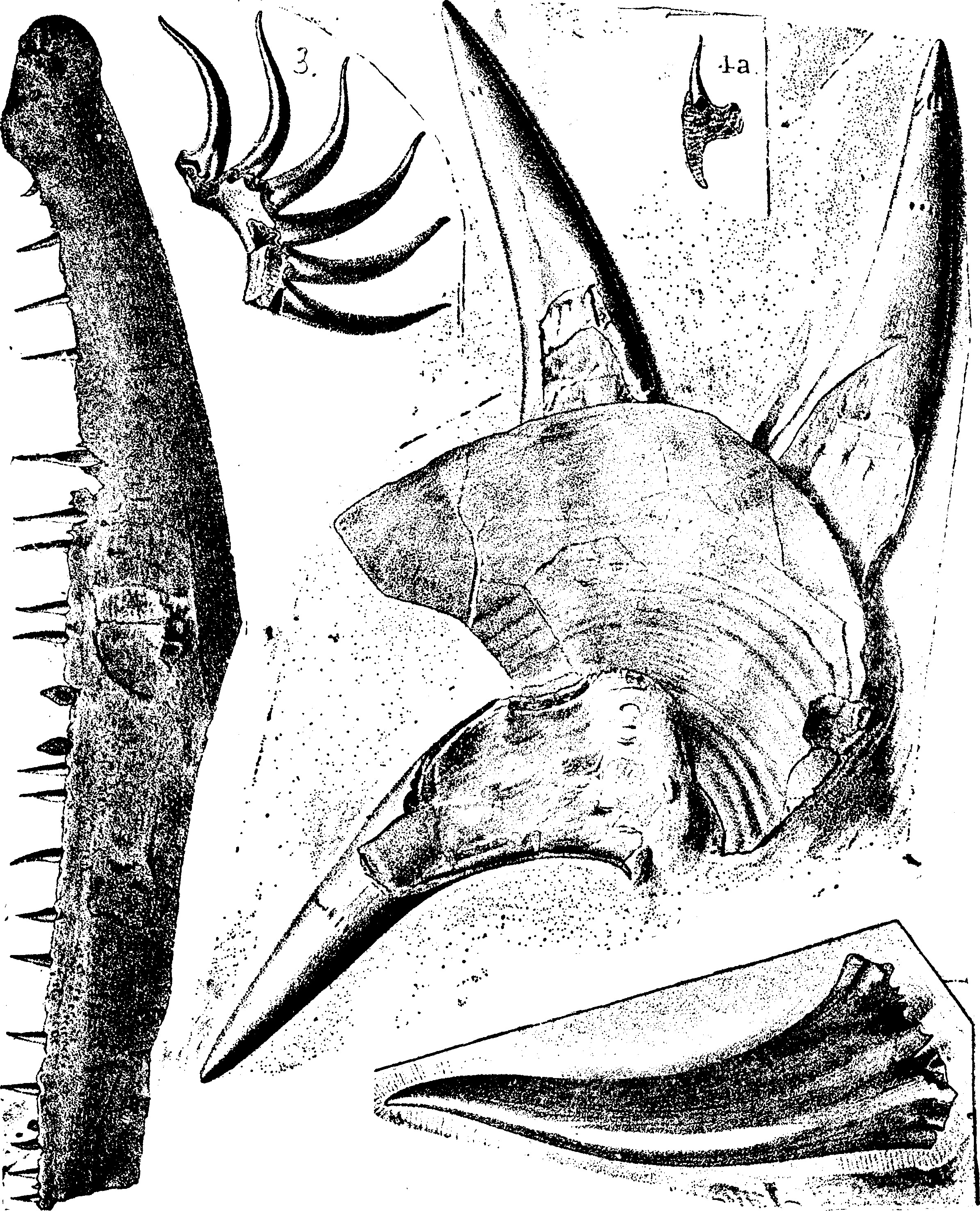 Onychodus sigmoides fossils Title: A dictionary of the fossils of Pennsylvania and neighboring states named in the reports and catalogues of the survey .. Year: 1889 (1880s) Authors: Lesley, J. P. (J. Peter), 1819-1903; Pennsylvania. Board of Commissioners for the Second Geological Survey Subjects: Paleontology Publisher: Harrisburg, Board of Commissioners for the Geological Survey Text Appearing Before Image: /iA/ew&. Onychodus sigmoides. Newberry. Text Appearing After Image: '